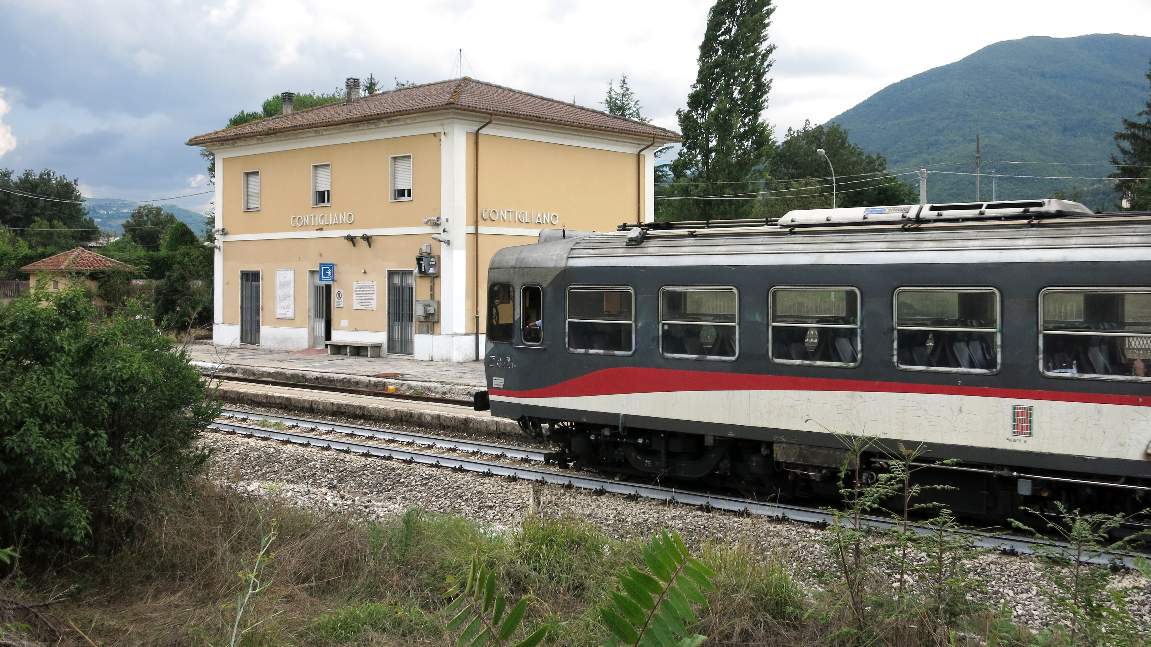 Train station of Contigliano (province of Rieti, central Italy), on the Terni-L'Aquila-Sulmona line